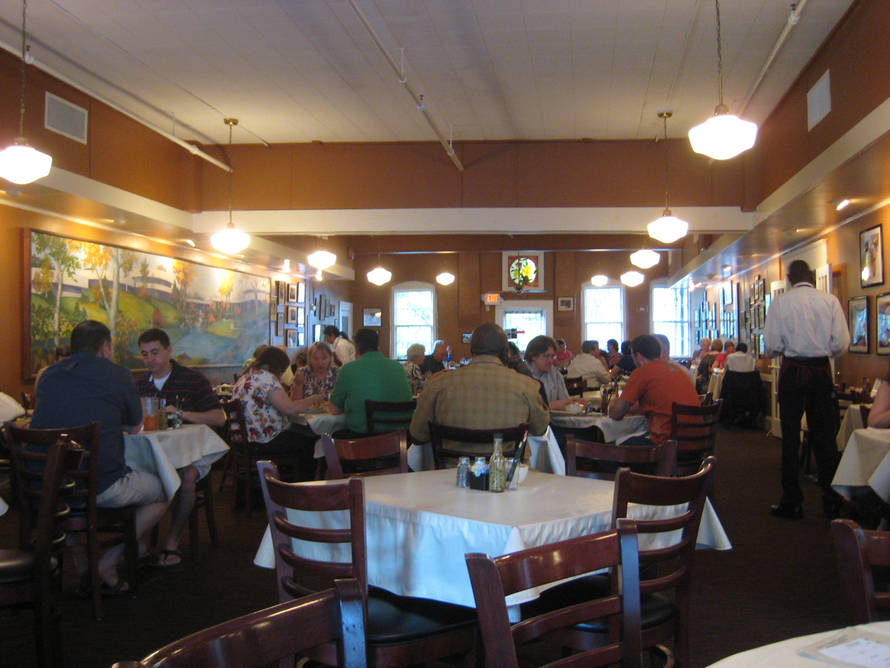 Inside of Mary Mac's, Atlanta